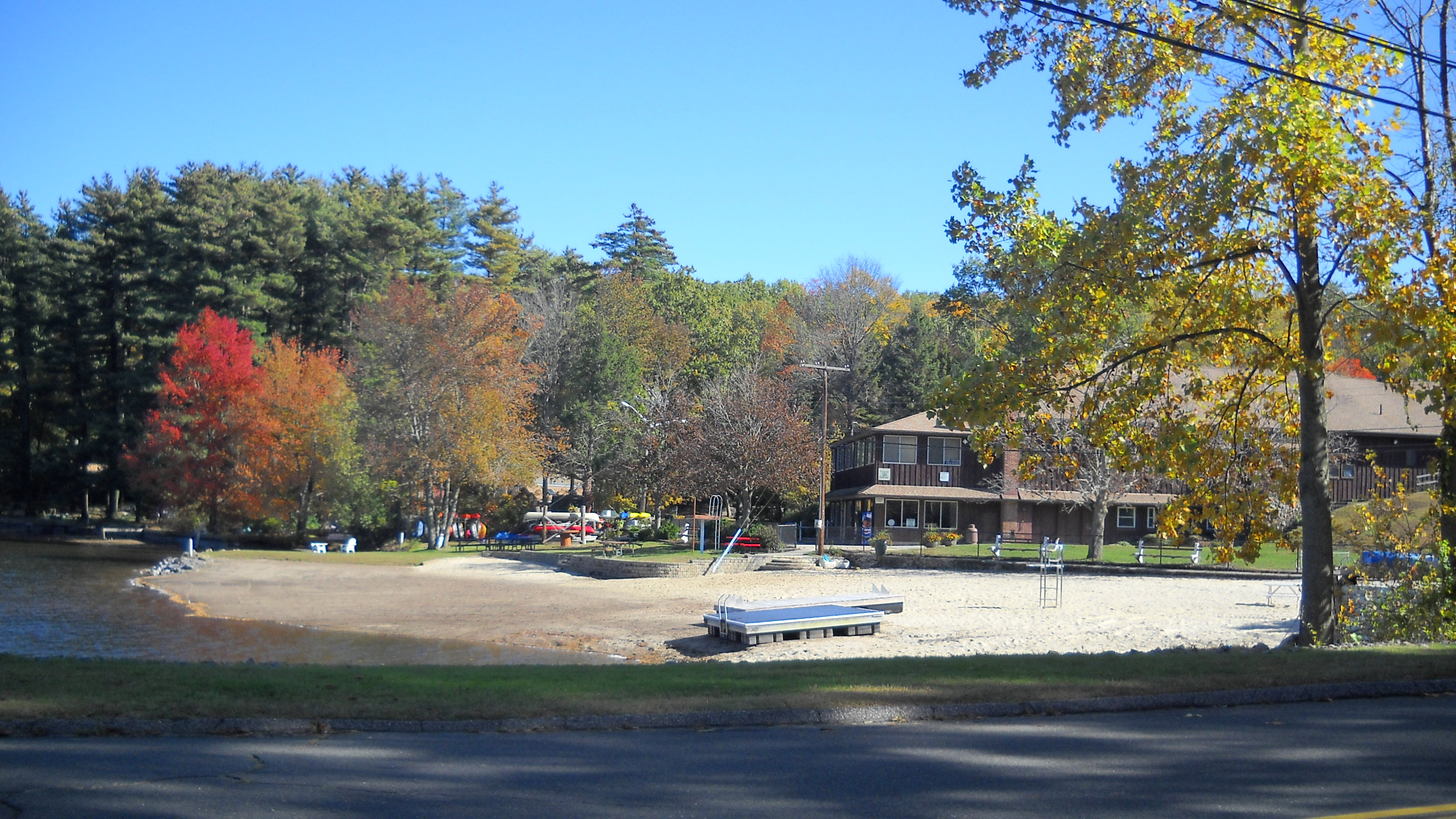 Pinewood Lake Association Clubhouse, formerly Pine Brook Theatre